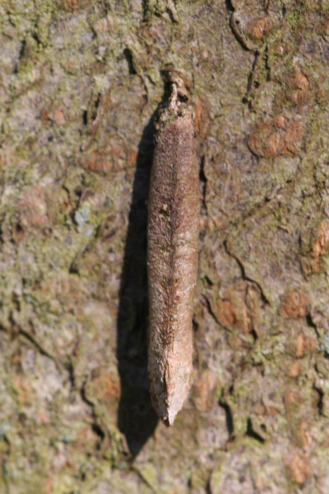 Taleporia_tubulosa (Retzius, 1783) 8 april 2007 IJmuiden, the Netherlands